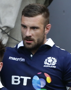 2017.06.17.14.59.18-Scots running on-0002 The 2017 mid-year rugby union international, 17 June 2017, Australia vs Scotland at Allianz Stadium, Sydney